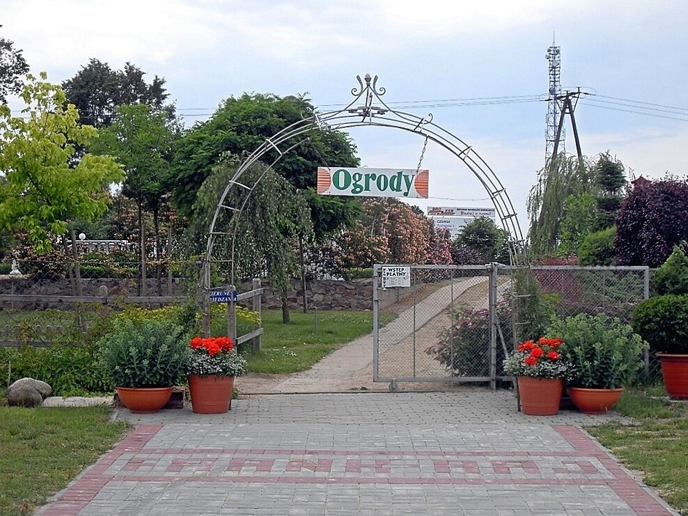 Frank-Paradise, nursery shrubs and ornamental trees and main entrance